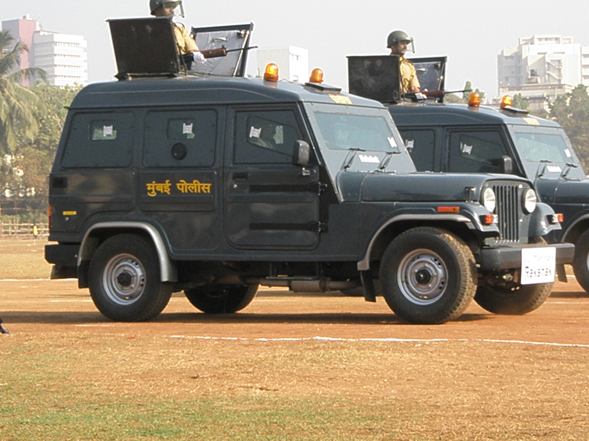 Armored Bullet Proof vehicles of the Commando force of the Mumbai Police, India. Photo taken at the Republicday parade in Mumbai